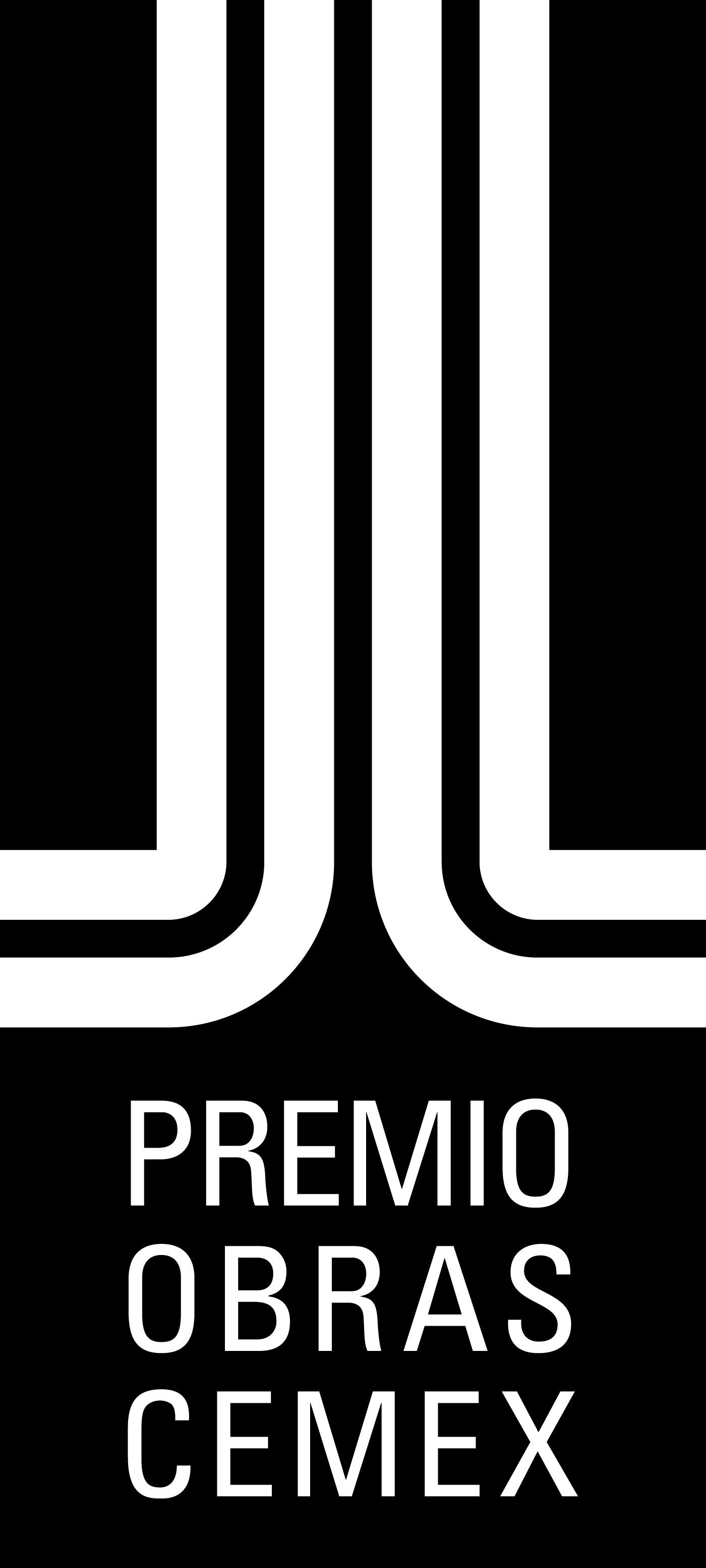 Logo del PREMIO OBRAS CEMEX, 20 Años.